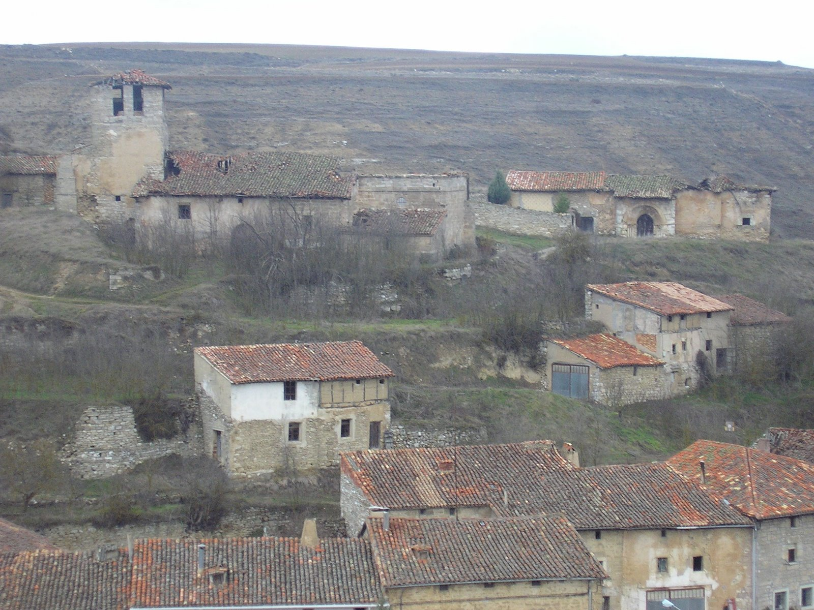 Photograph of the romanic church of Carrias